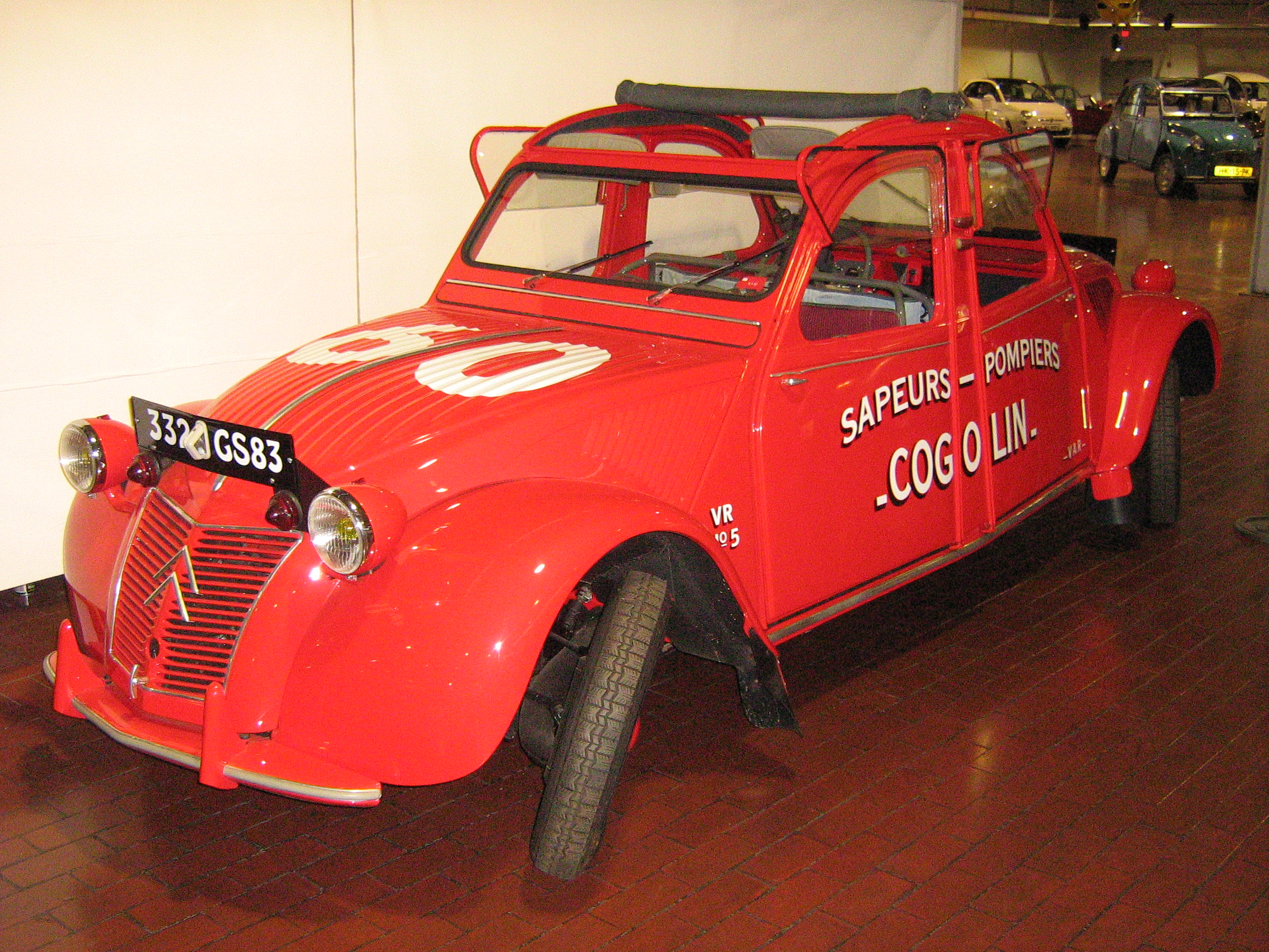 1952 Citroën Cogolin.